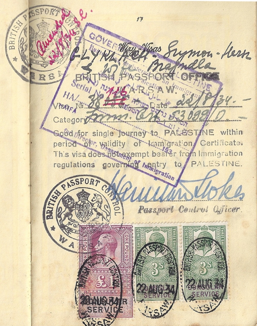 A page from a passport issued by the Polish Republic to a couple of Jews who decided to emigrate to British Mandate Palestine. Main stamp is the visa and immigration permit, stamp on top indicates actual entry to British Mandate Palestine.